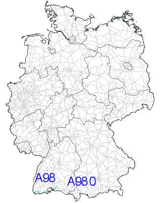 map of Germany with motorway routes A98 and A980